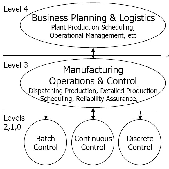 The figure shows three levels of the PERA functional hierarchy model at which decisions are made: business planning and logistics, manufacturing operation, and control.